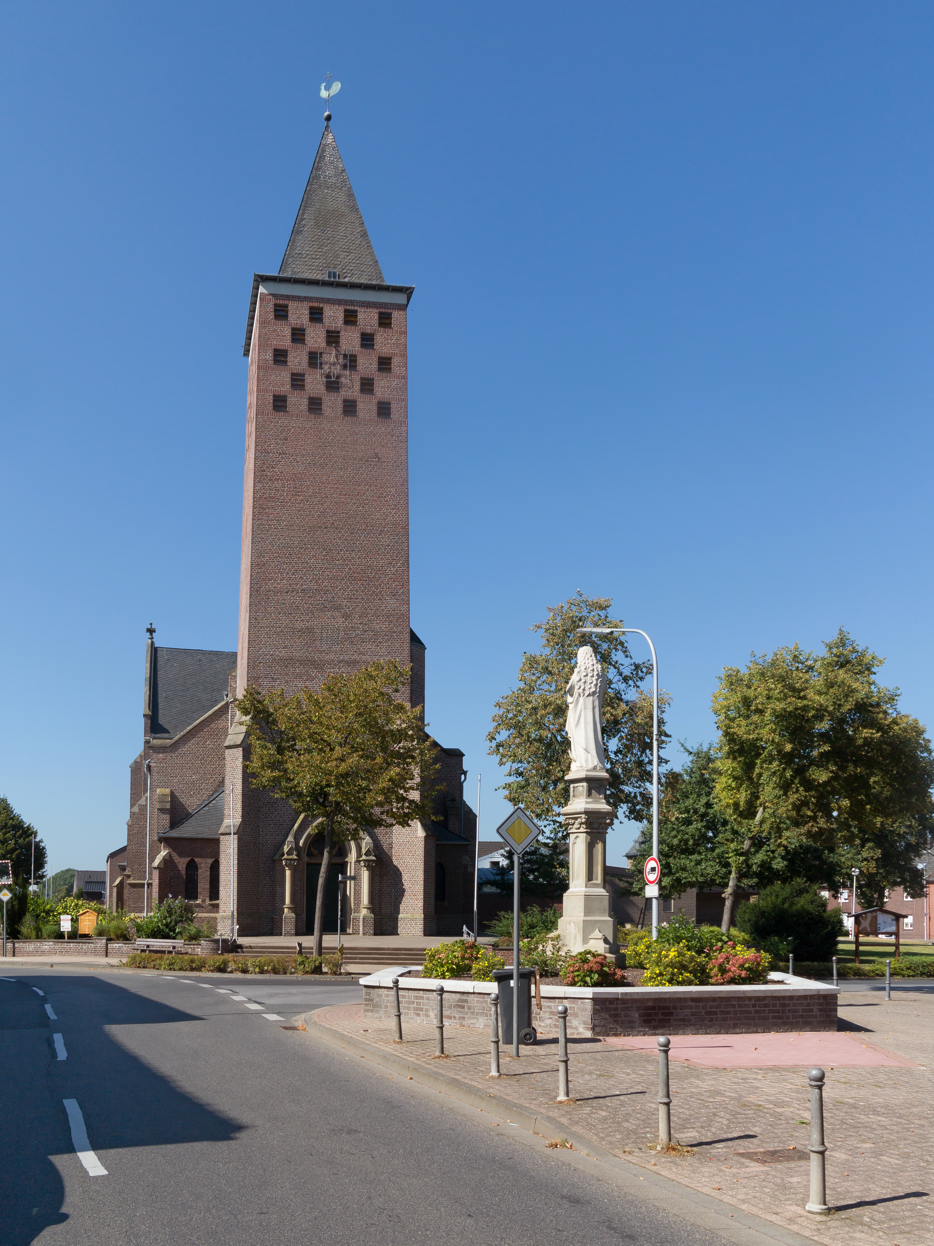 Kempen, church: bdie Sankt Nikolaus Kirche